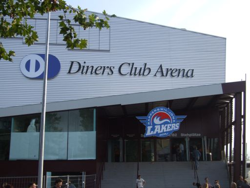 Diners Club Arena, home of the Rapperswil-Jona Lakers, Rapperswil, Switzerland